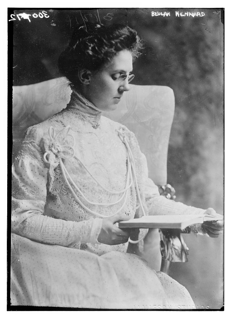 Bain News Service,, publisher. Beulah E. Kennard [between ca. 1910 and ca. 1915] 1 negative : glass ; 5 x 7 in. or smaller. Notes: Title from unverified data provided by the Bain News Service on the negatives or caption cards. Forms part of: George Grantham Bain Collection (Library of Congress). Format: Glass negatives. Repository: Library of Congress, Prints and Photographs Division, Washington, D.C. 20540 USA, General information about the Bain Collection is available at Persistent URL: Call Number: LC-B2- 3007-12